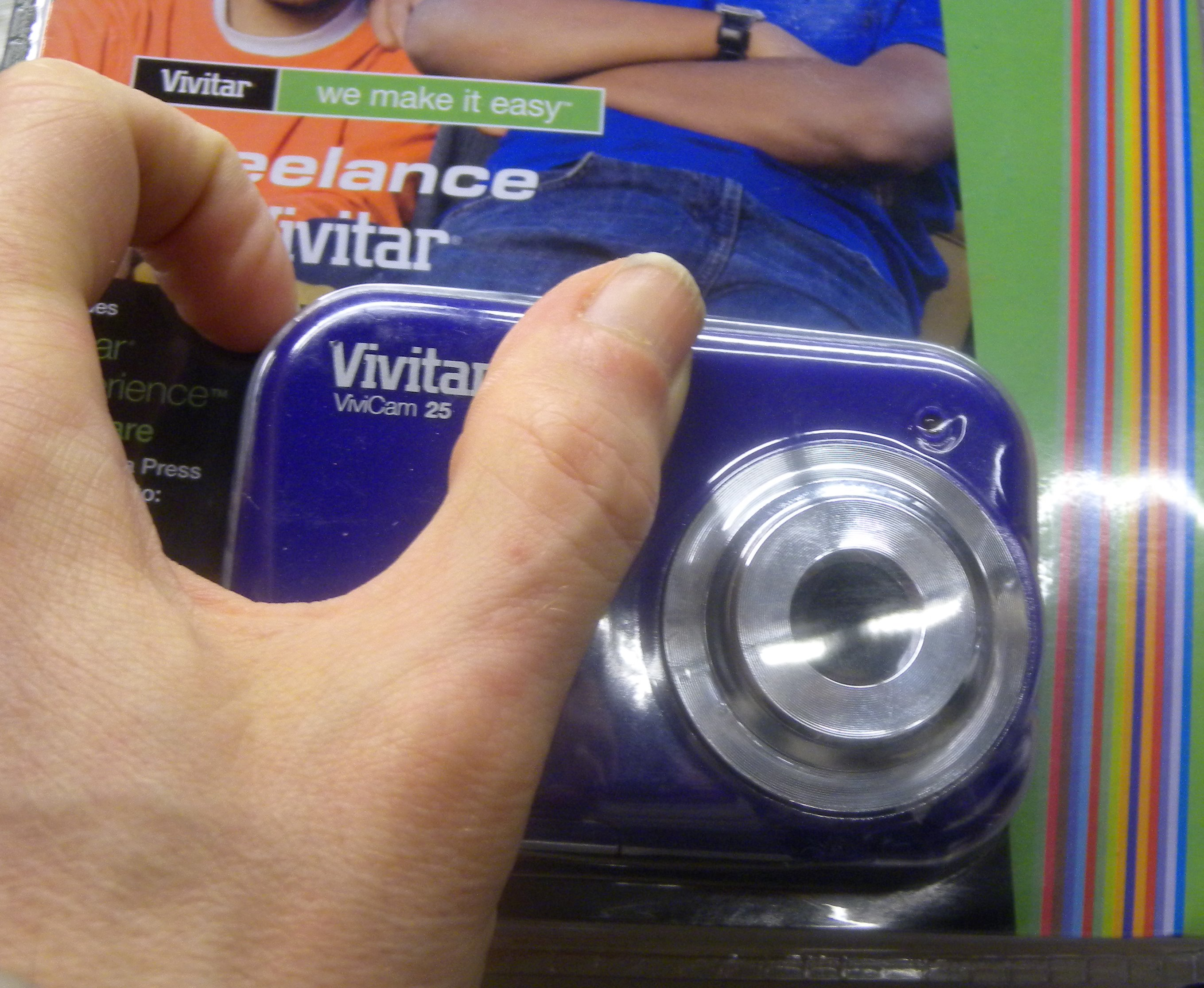 Vivitar Freelance camera in its blister pack, commonly used by children.